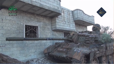 Collage of Ahrar al-Sham operations during the Syrian civil war.